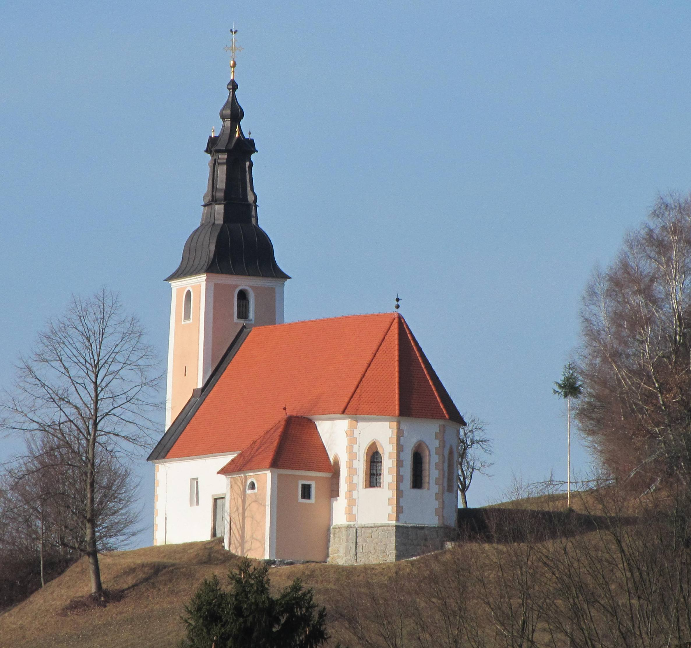 Church of St. George (Sln. sveti Jurij) in the village of Praproče, Municipality of Dobrova–Polhov Gradec, Slovenia